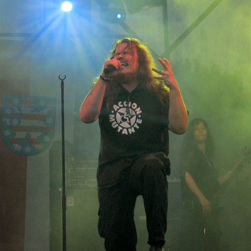 Michael Roth of the German Band Eisregen during their performance at Wacken Open Air 2005 on the Party Stage.